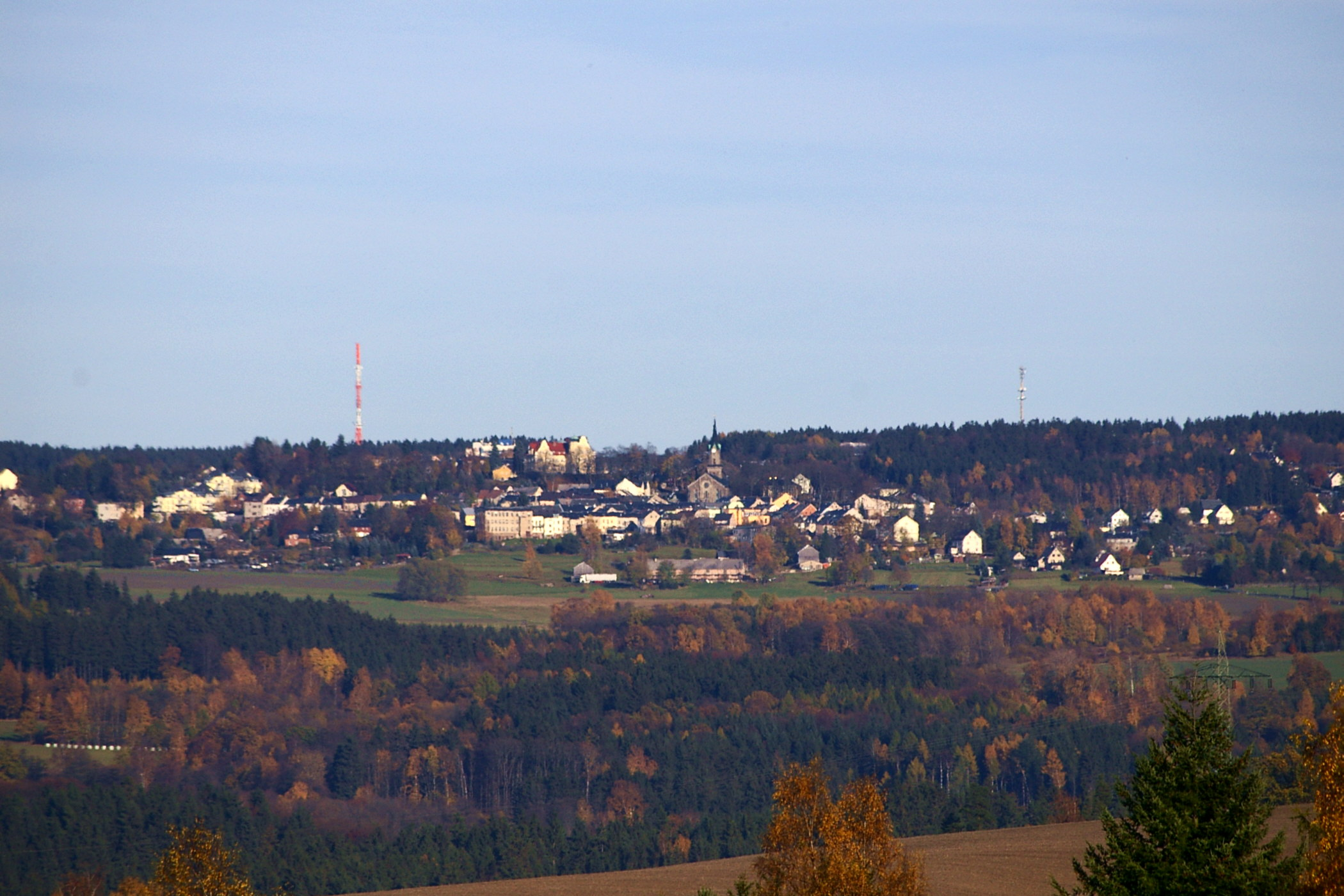 The Center of Town Schöneck in the Vogtland, view from southwest